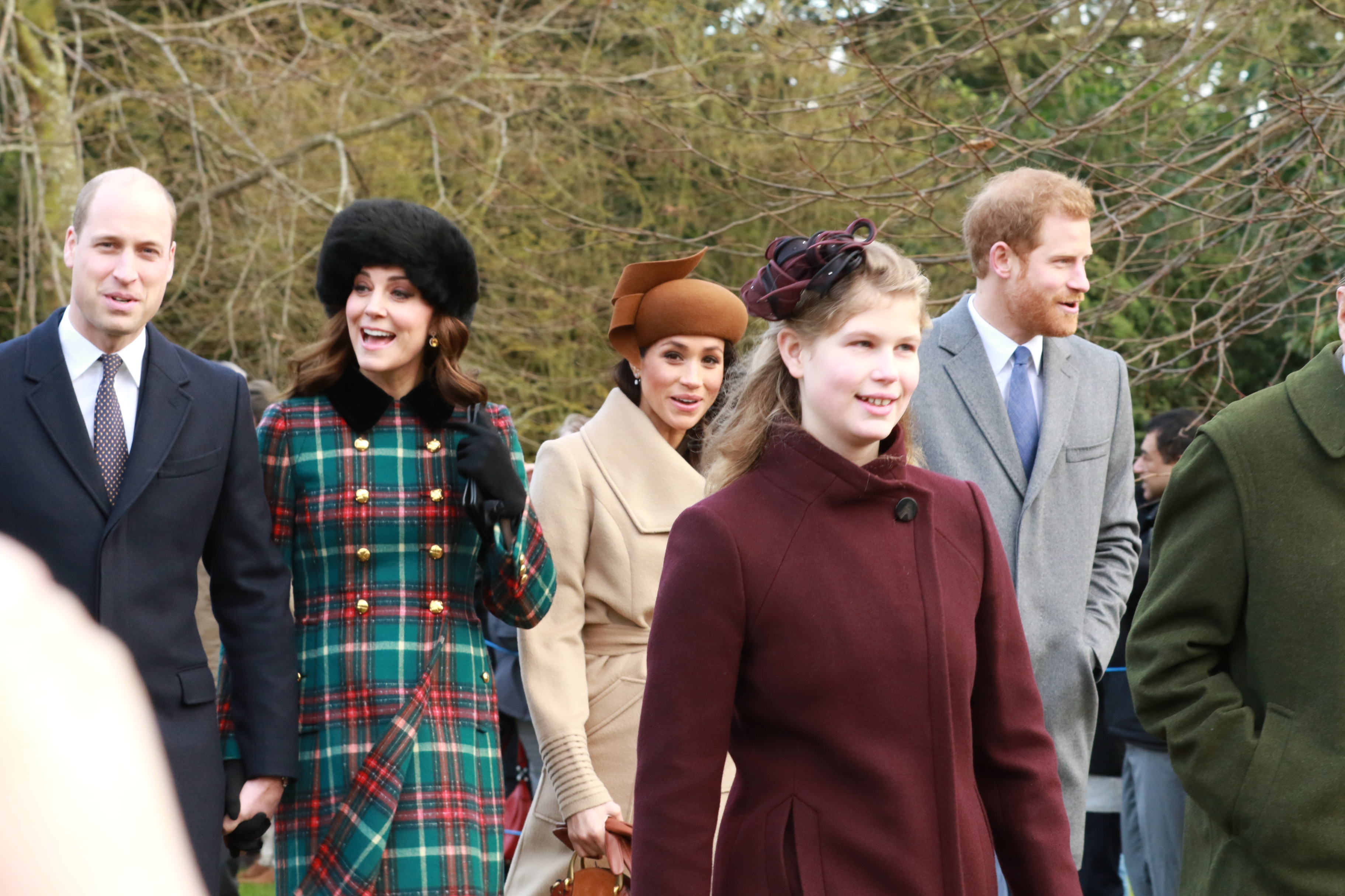 The Royal Family on Christmas Day 2017